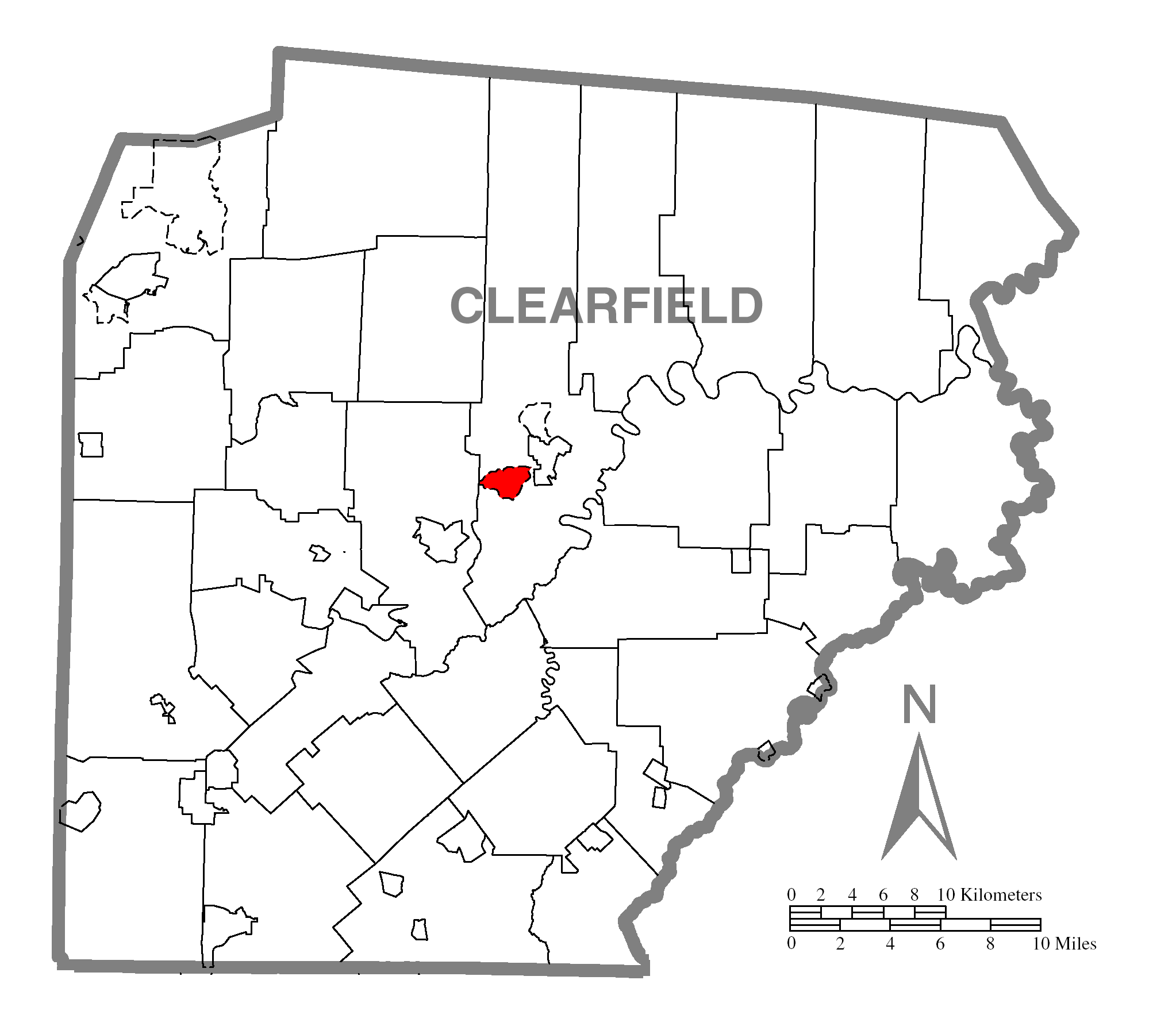 A map of Clearfield County showing Hyde, Pennsylvania (alternate) highlighted on the map.